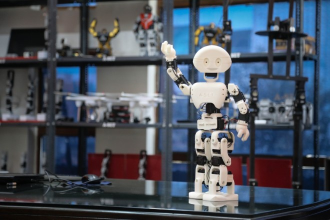 Manav India's first 3D printed humanoid robot